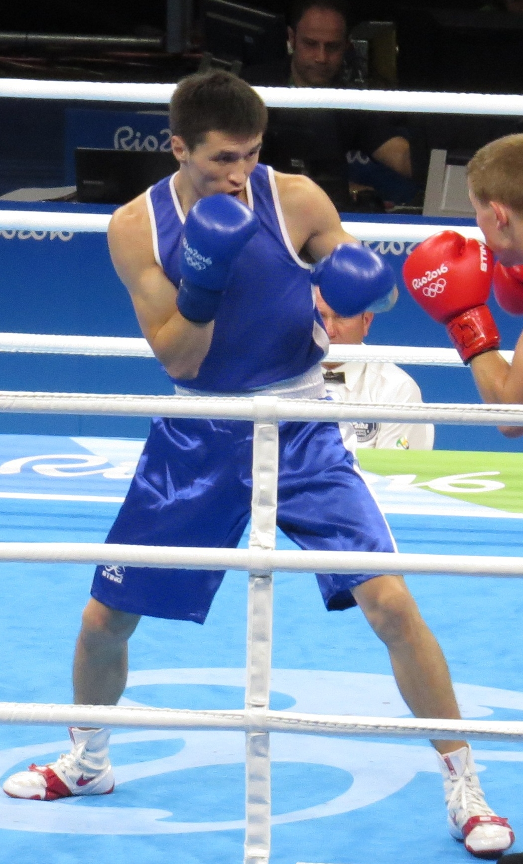 Chinzorig Baatarsukh, Rio Olympics